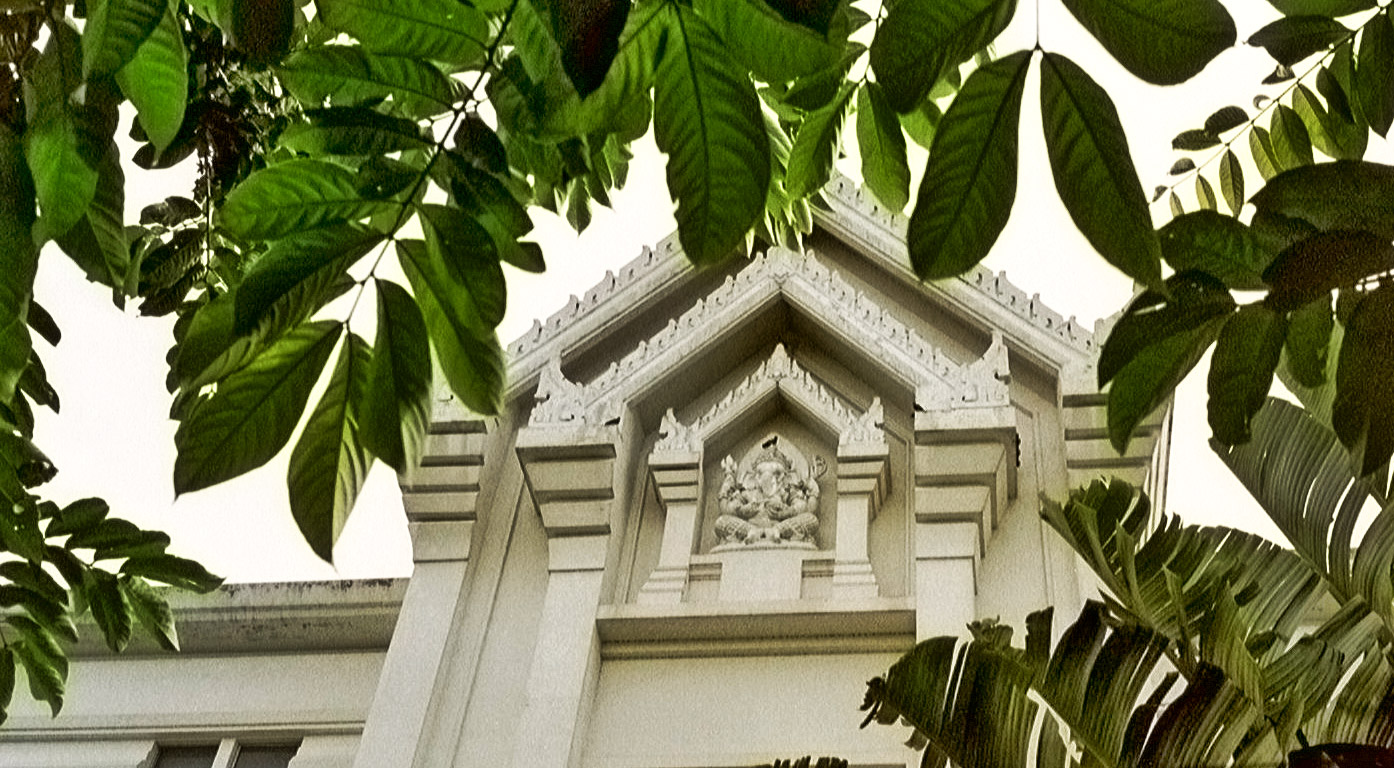 Statue of Ganesha at National Theatre in Bangkok, Thailand